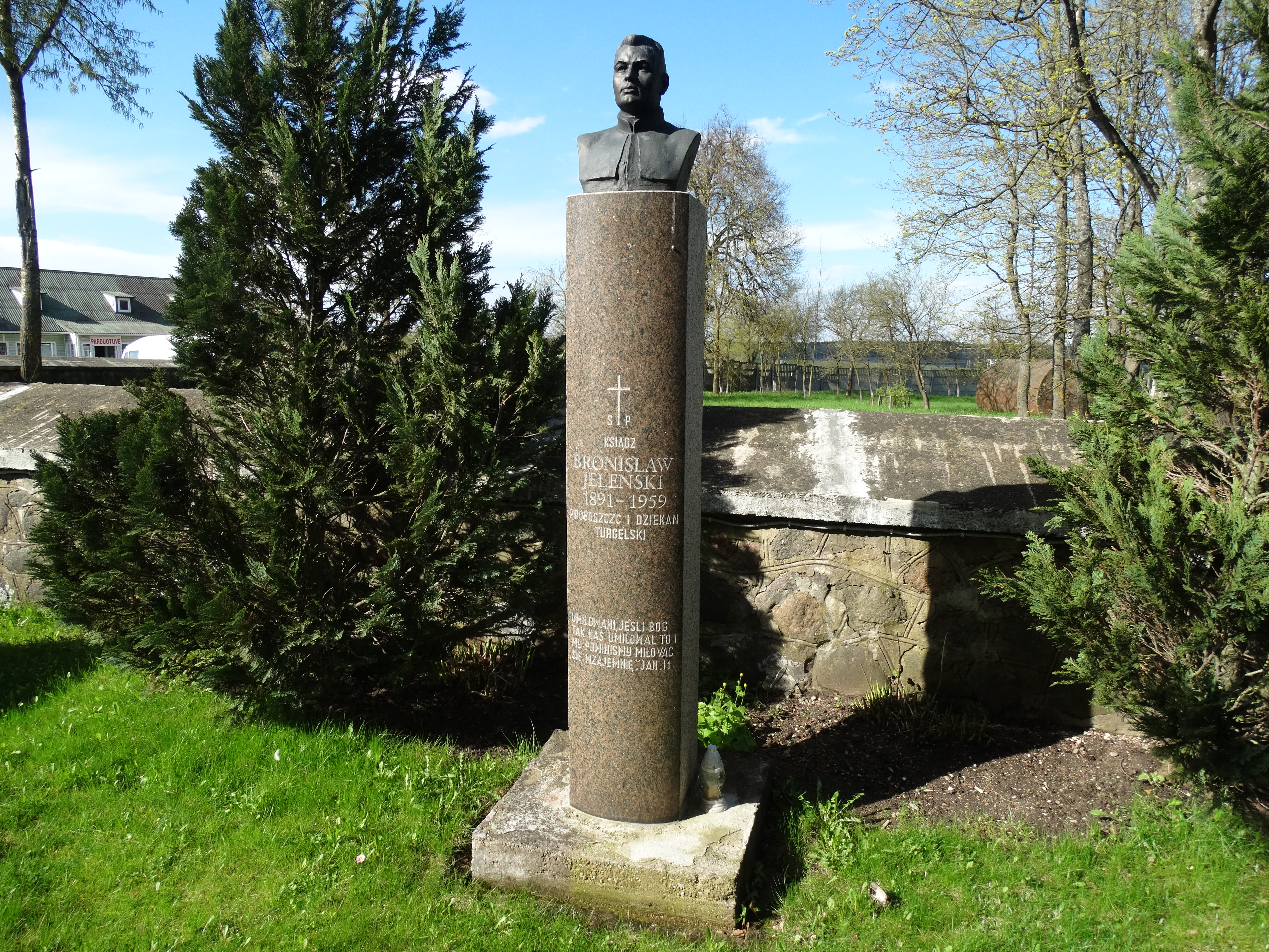 Churchyard, Turgeliai, Šalčininkai District, Lithuania